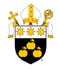 Coat of arms of České Budějovice Diocese, Czech Republic